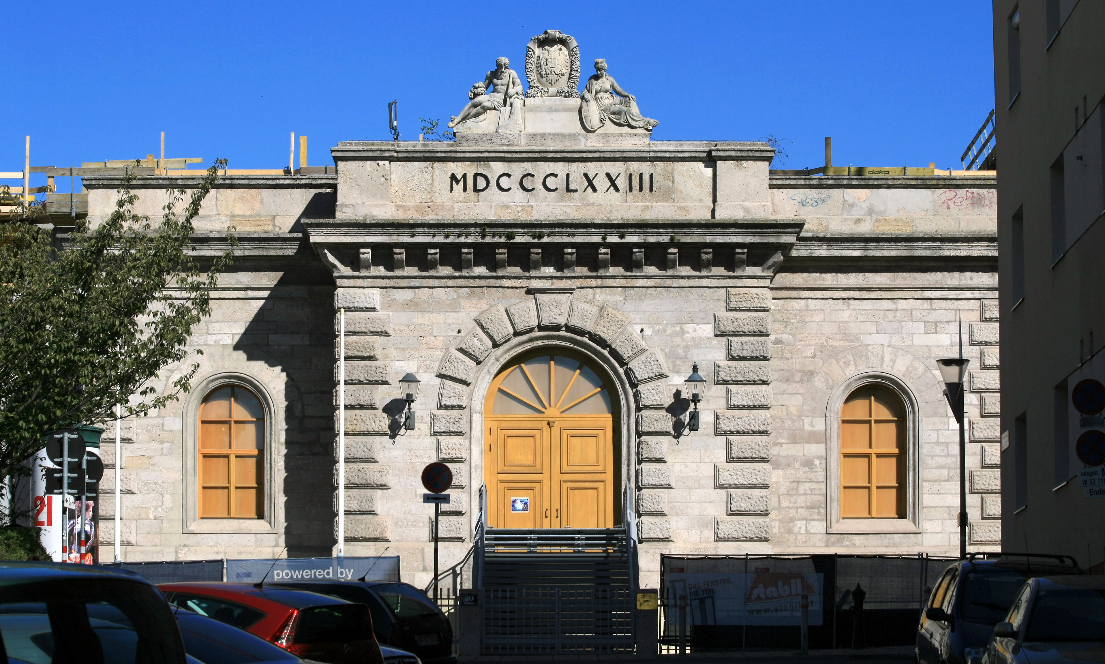 Rudolfsheim-Fünfhaus, 15th district of Vienna, Austria: The old service chamber of the former water reservoir on Schmelz.